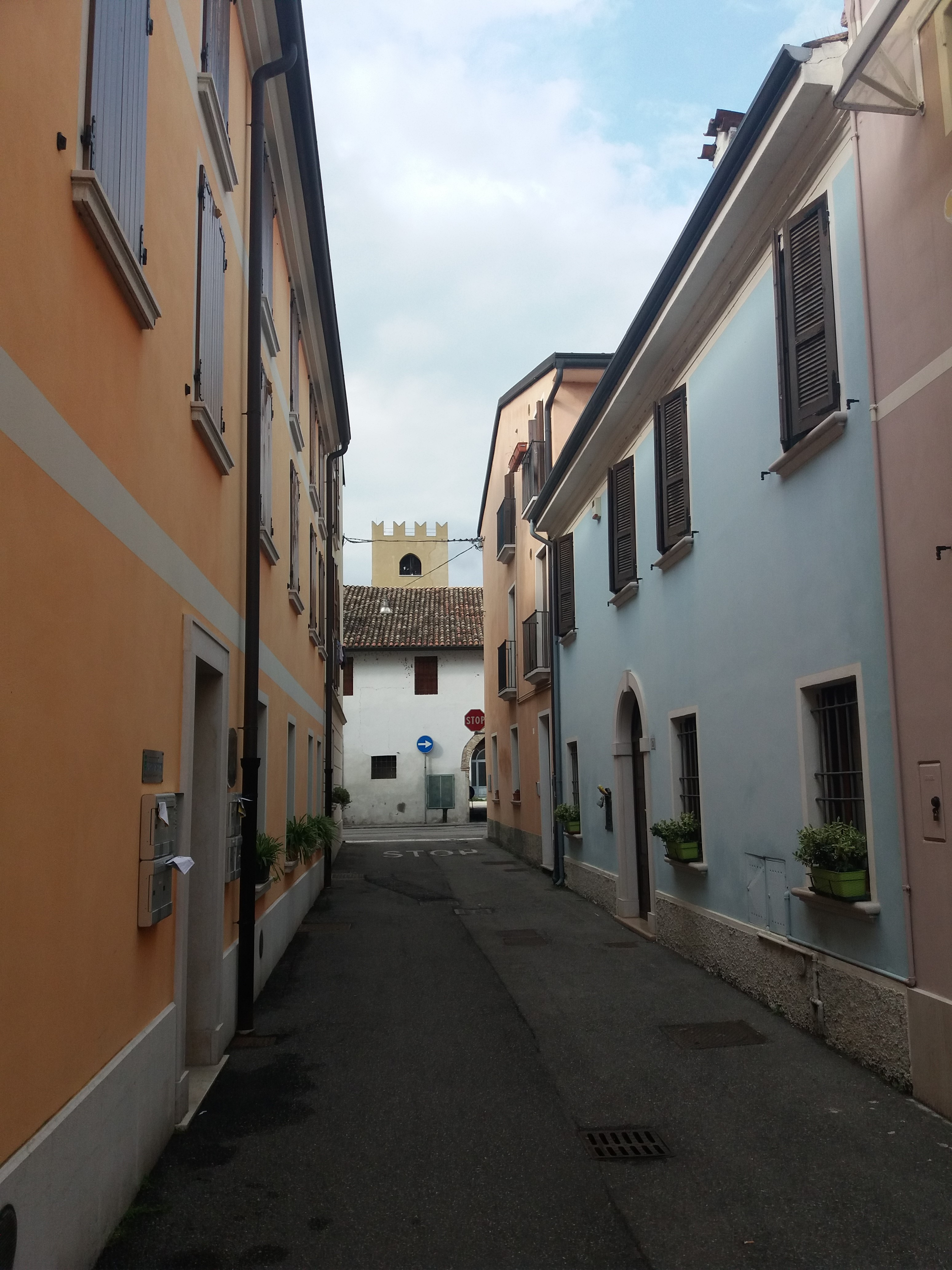 Castelgoffredo vicolo centrale